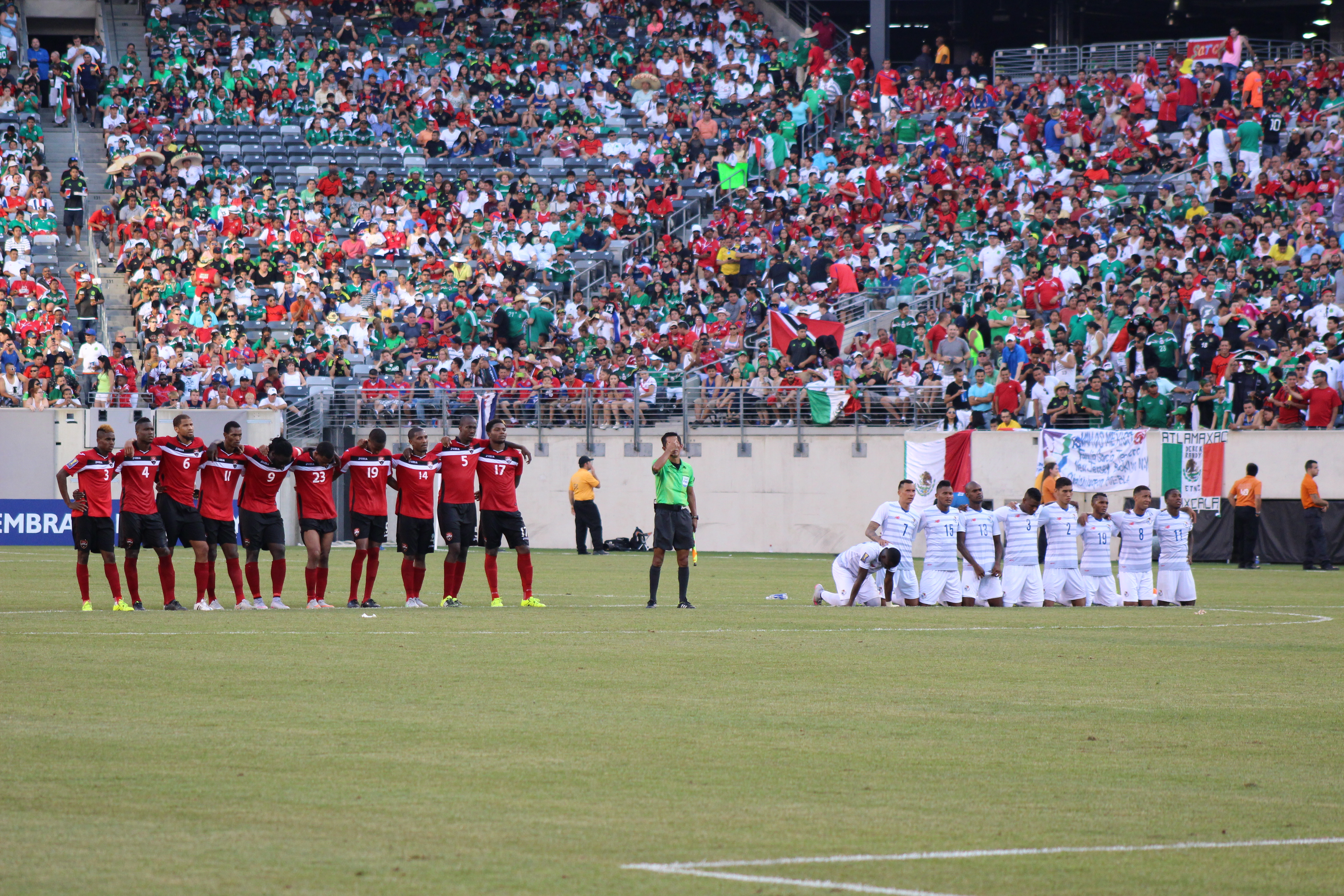 CONCACAF Gold Cup 2015 Quarterfinals at Metlife Stadium